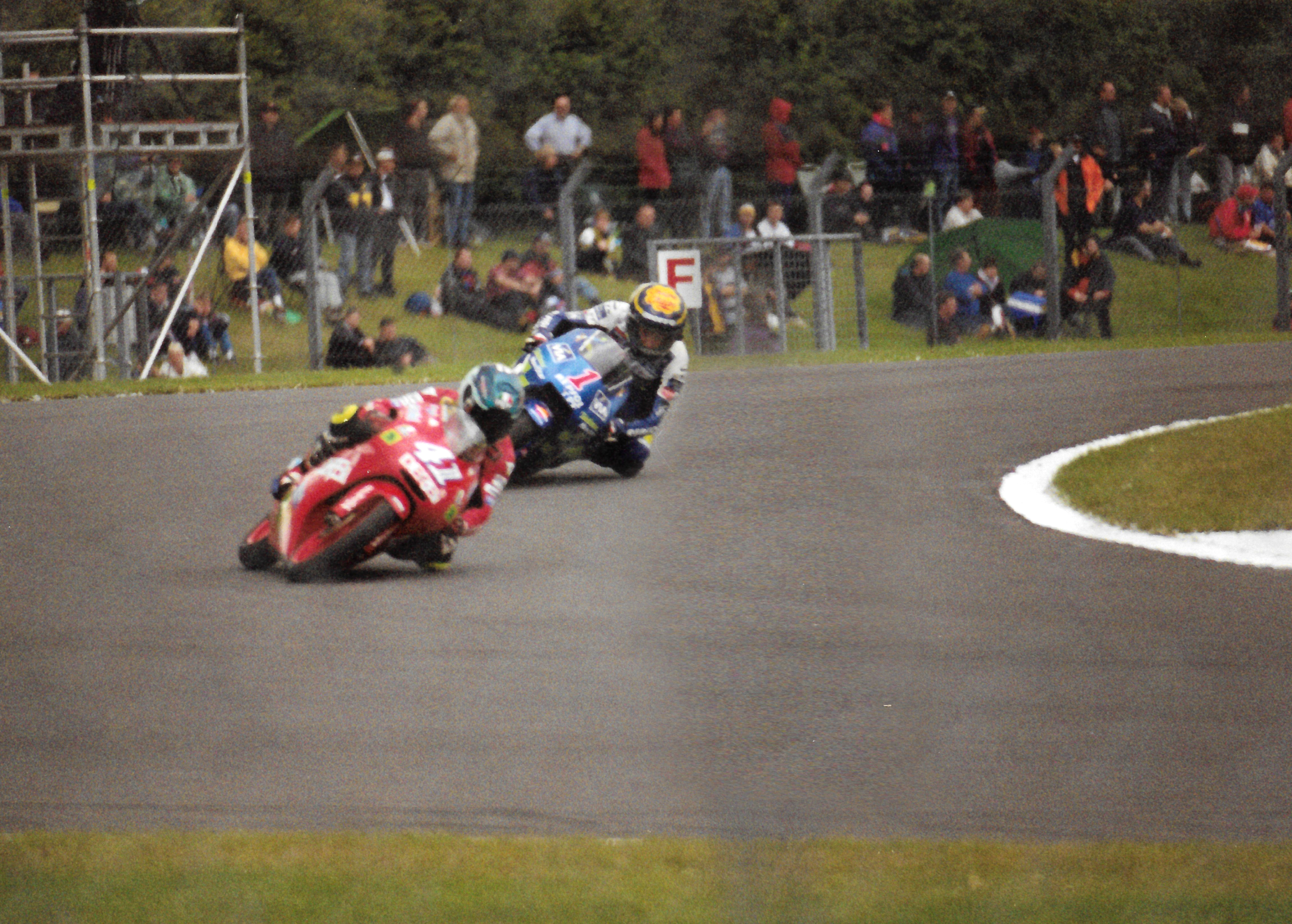 Youichi Ui, riding his 125cc Derbi, battling with the Telefónica Movistar Honda of Emilio Alzamora at the 2000 British Grand Prix.